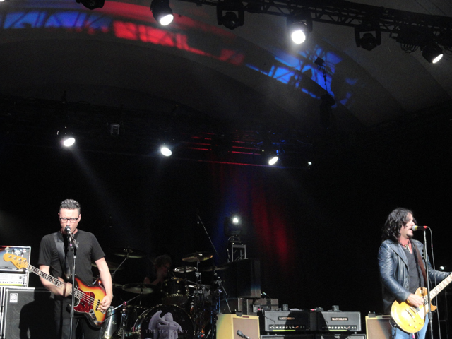 The Tea Party perform at the CNE Bandshell, August 2012